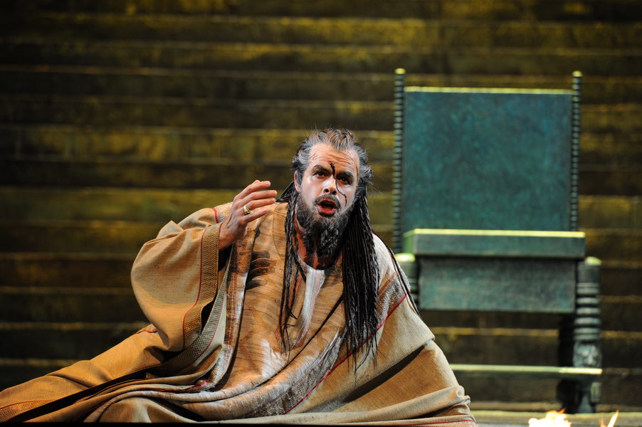 Nabucco in Nabucco